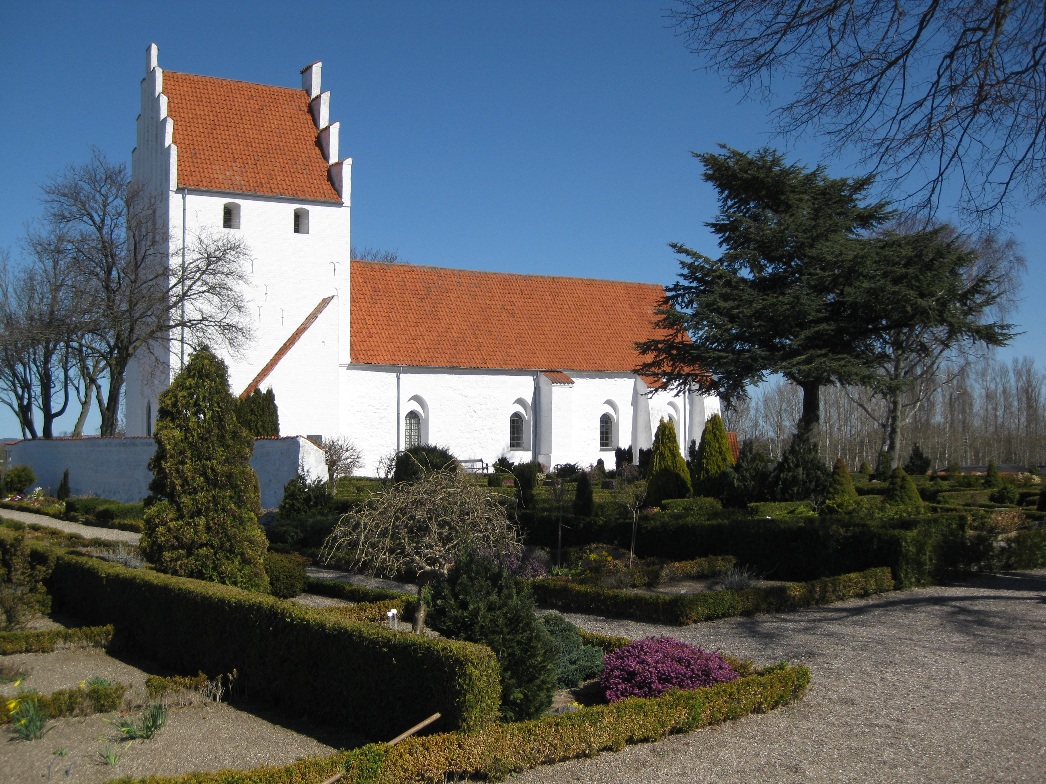 The church "Føllenslev Kirke" located in Kalundborg Municipality, West Zealand, Denmark.